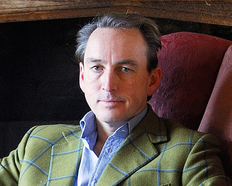 Portrait of Philip Mould